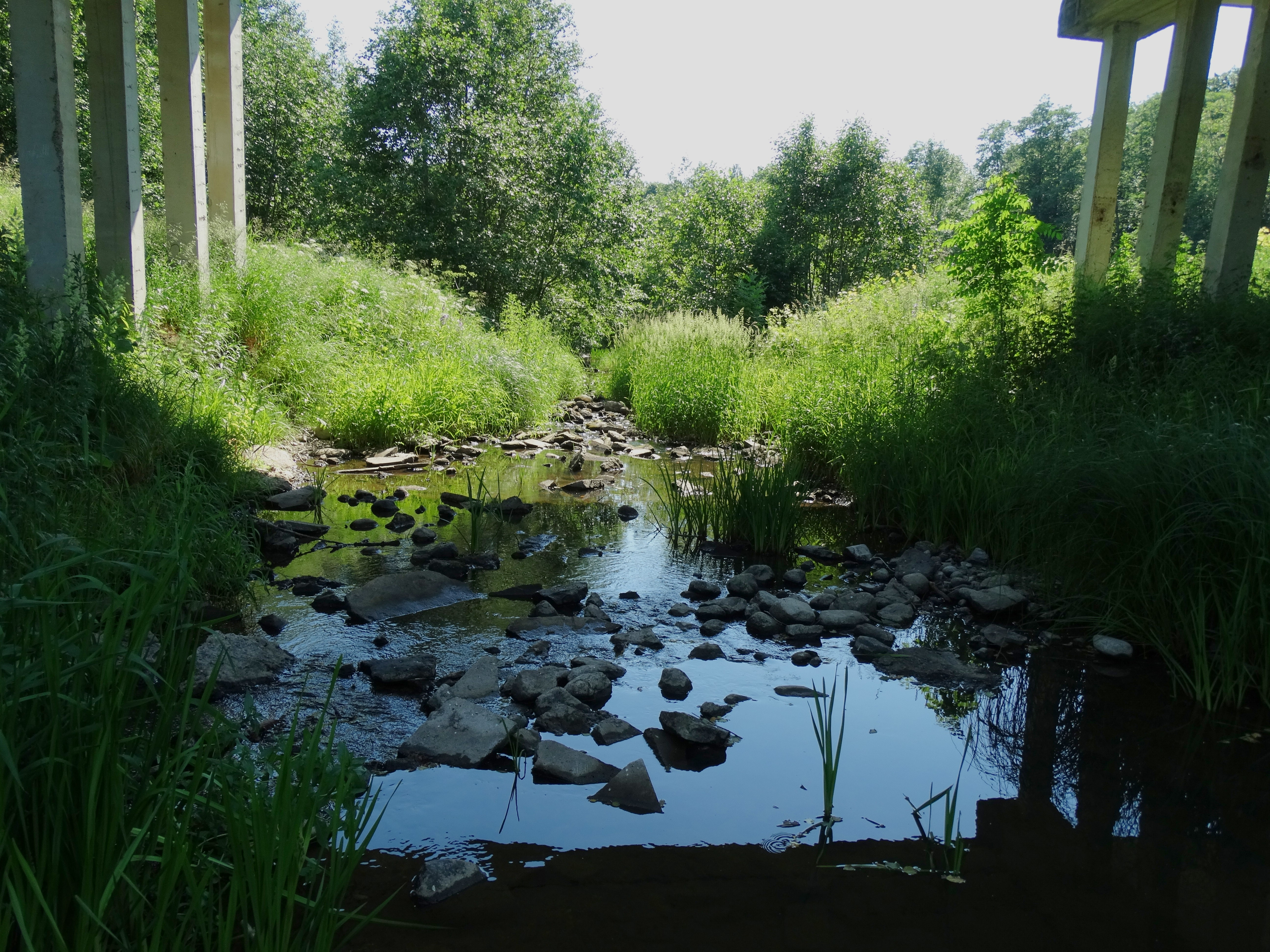 Sausdravas River in Žlibinai, Plungė District, Lithuania